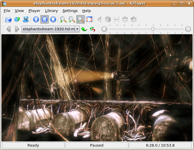 Screenshot of KPlayer 0.6.3 on ubuntu